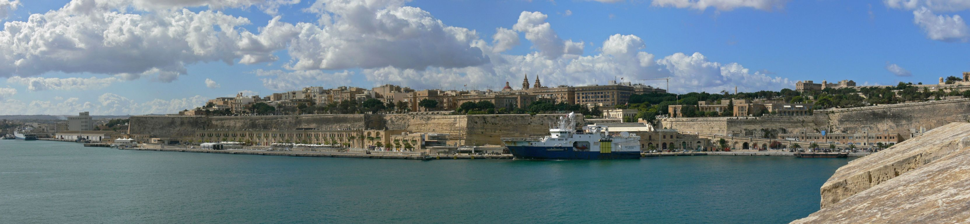 Panoramic view of Il-Furjana (Floriana), Malta